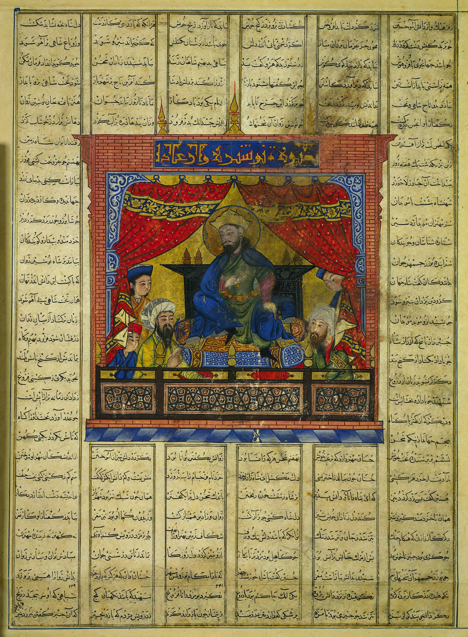 Anushirwan Holds a Banquet for his Minister Buzurgmihr: Illustration from the "Demotte" Shahnama